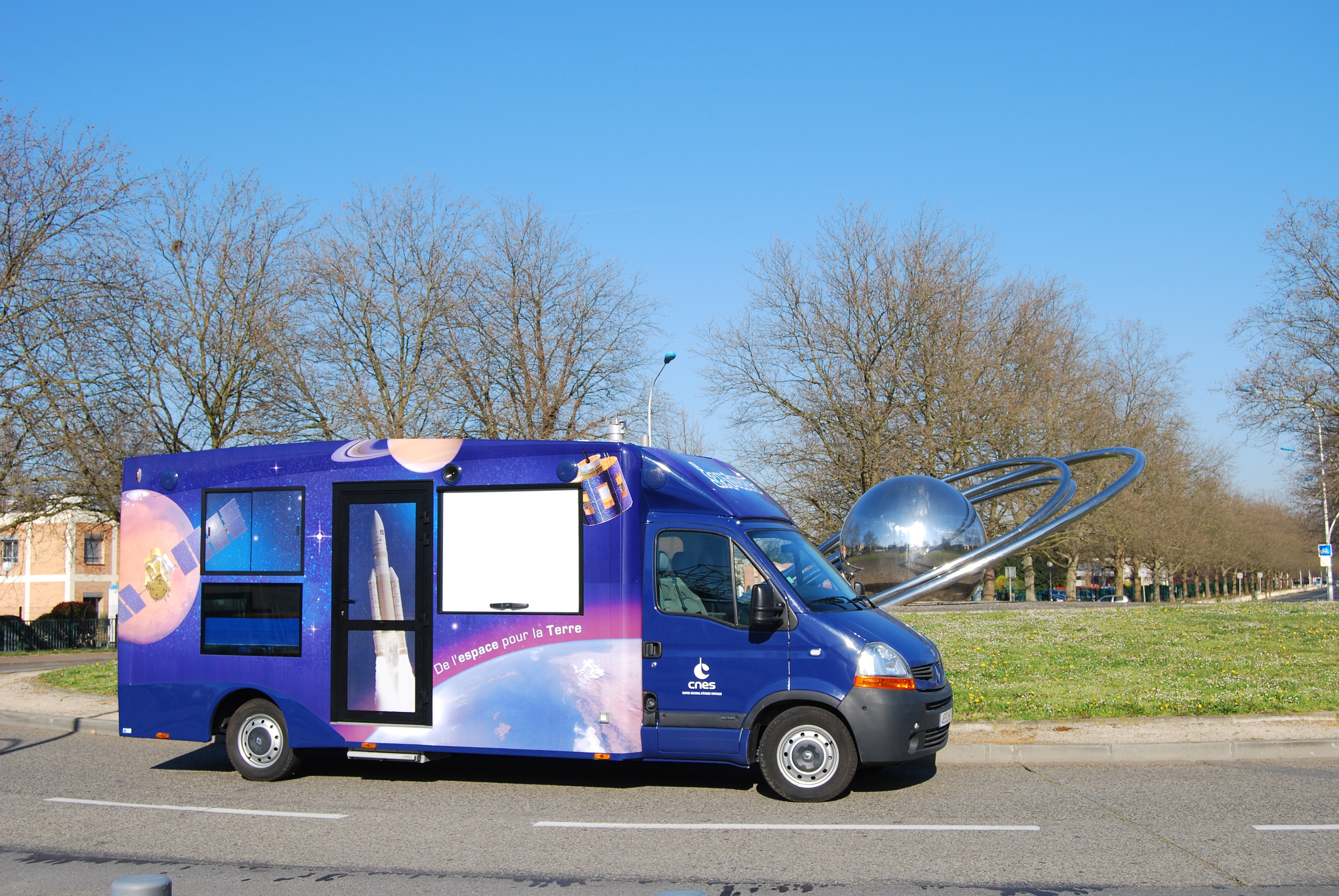 The Spatiobus parked outside the CST main entrance